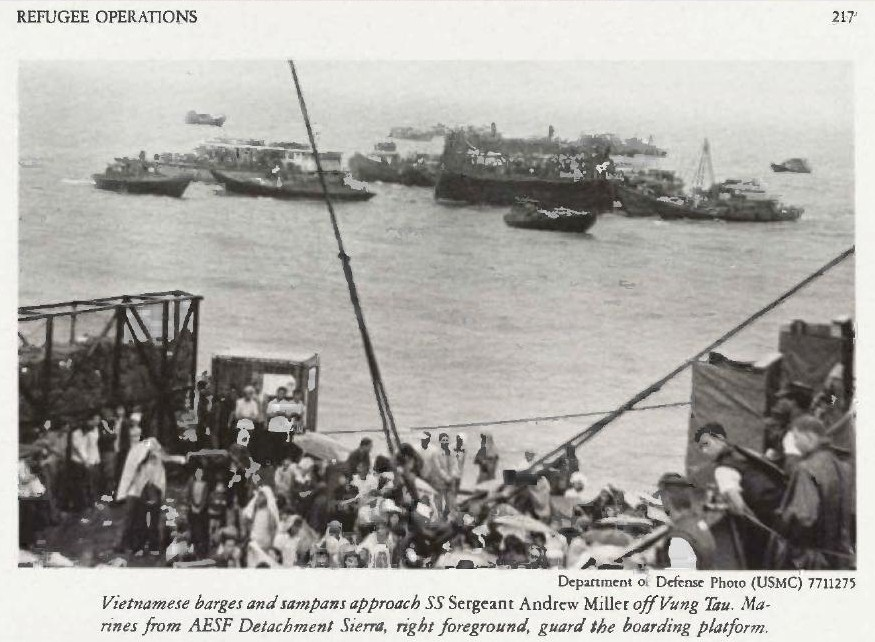 WYSWYG